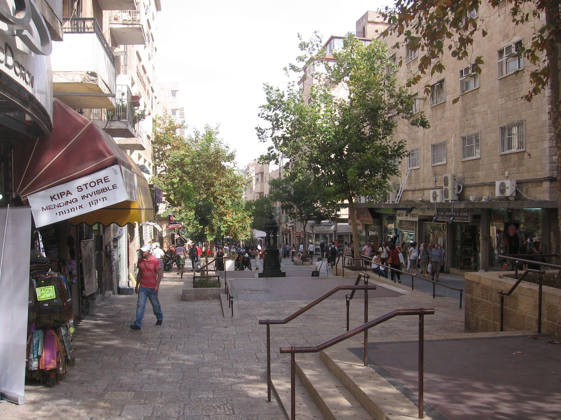 Ben Yehuad pedestrian mall in central Jerusalem.